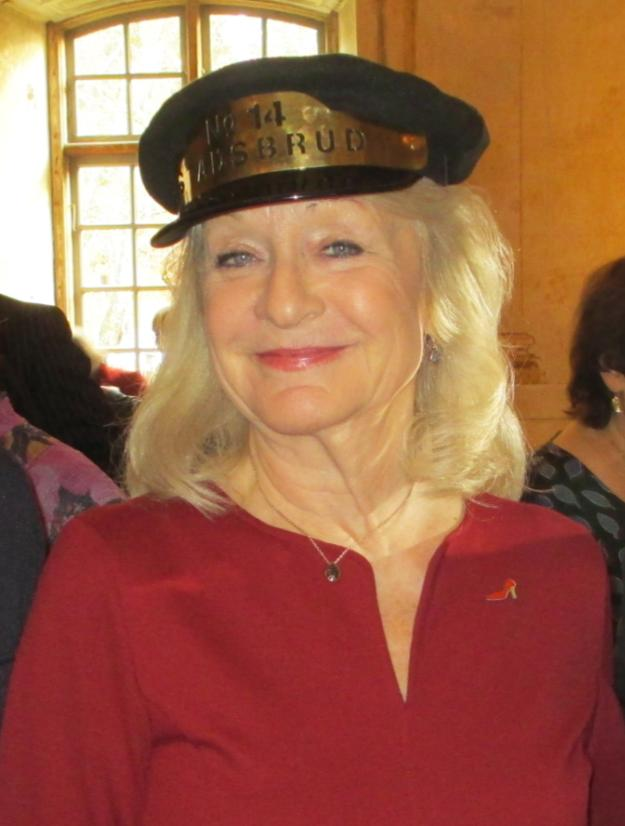 Alexandra Charles in cap of StadsbrudskårenPlace: Confidencen, Ulriksdal, Solna, Sweden